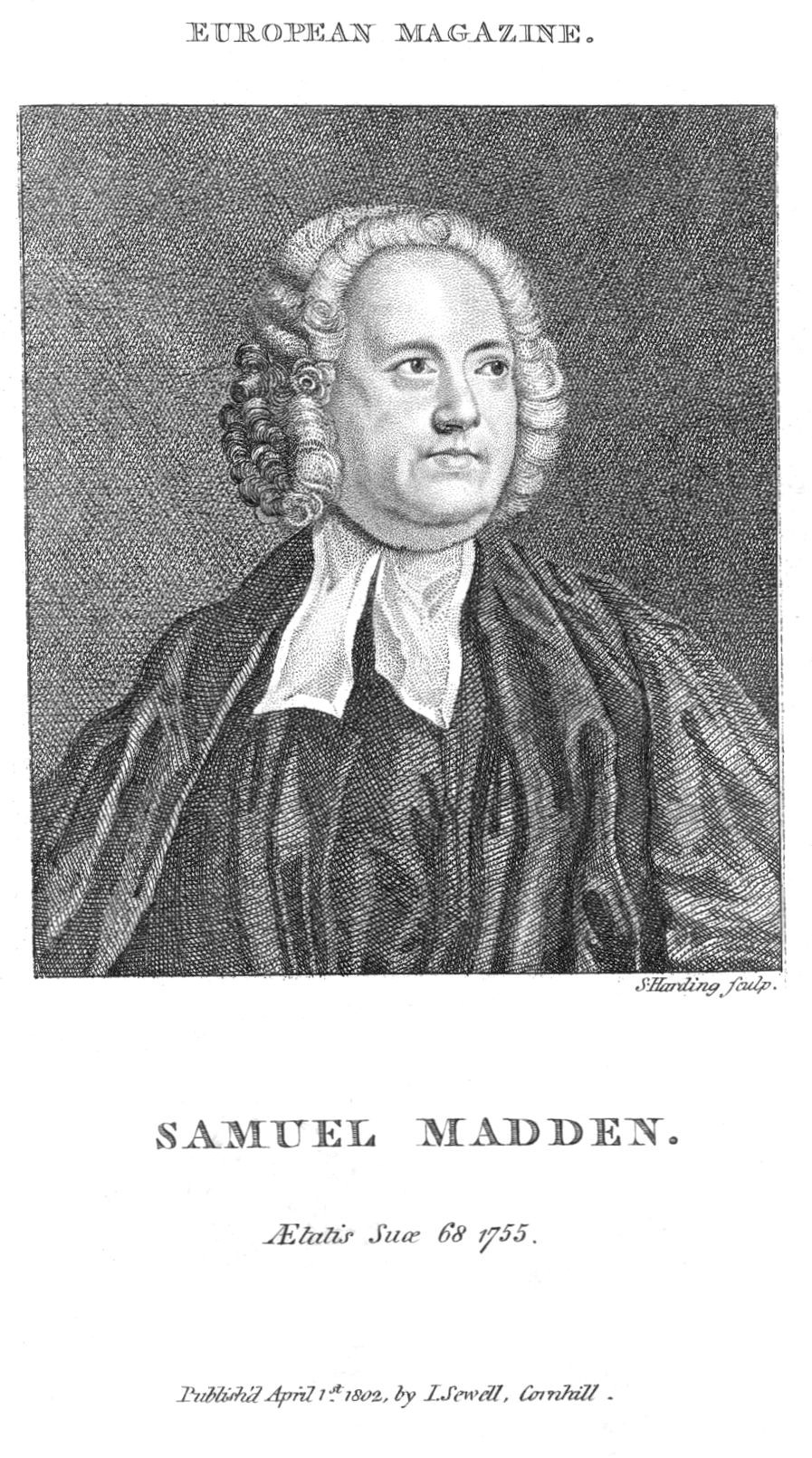 A portrait from the Welsh Portrait Collection at the National Library of Wales. Depicted person: Samuel Madden – Irish writer